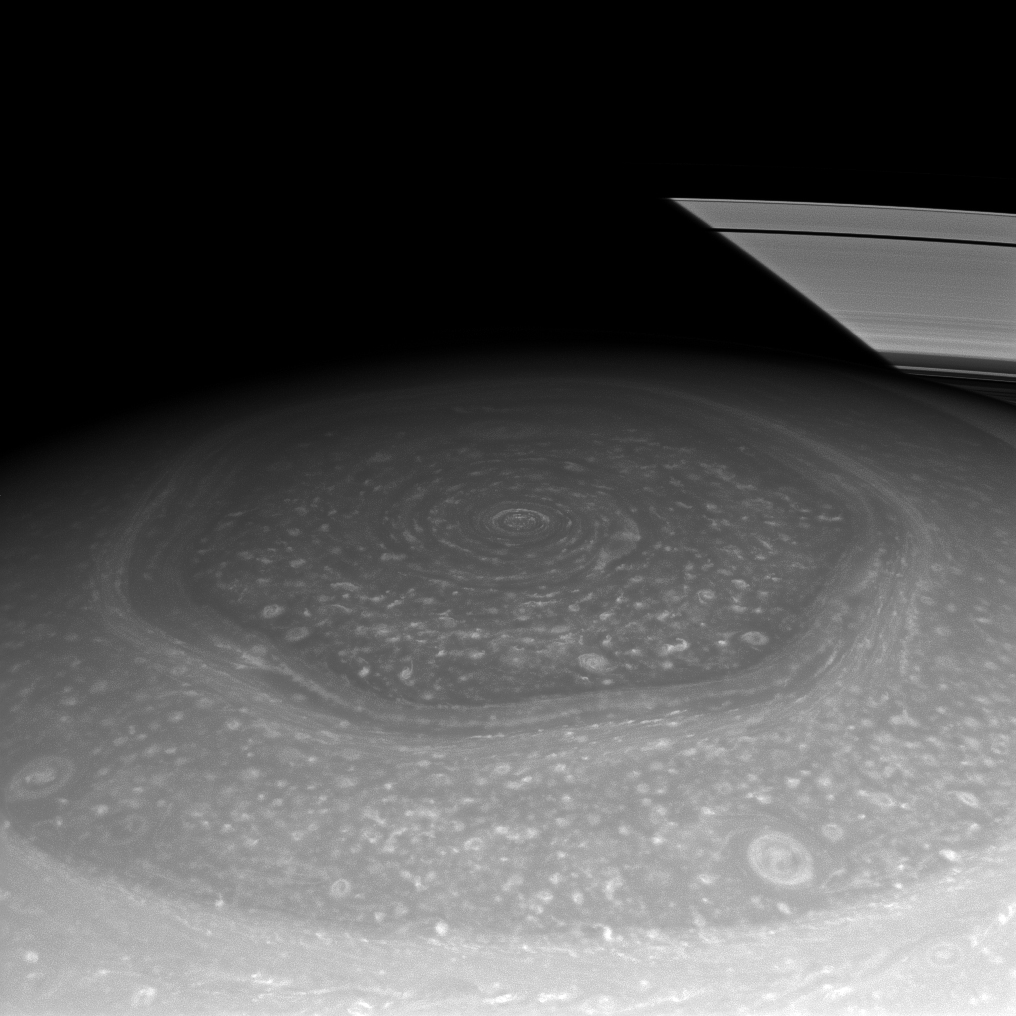 Saturn's north polar hexagon basks in the Sun's light now that spring has come to the northern hemisphere. Many smaller storms dot the north polar region and Saturn's signature rings, which appear to disappear on account of Saturn's shadow, put in an appearance in the background. The image was taken with the Cassini spacecraft's wide-angle camera on Nov. 27, 2012 using a spectral filter sensitive to wavelengths of near-infrared light centered at 750 nanometers. The view was acquired at a distance of approximately 403,000 miles (649,000 kilometers) from Saturn and at a Sun-Saturn-spacecraft, or phase, angle of 21 degrees. Image scale is 22 miles (35 kilometers) per pixel.